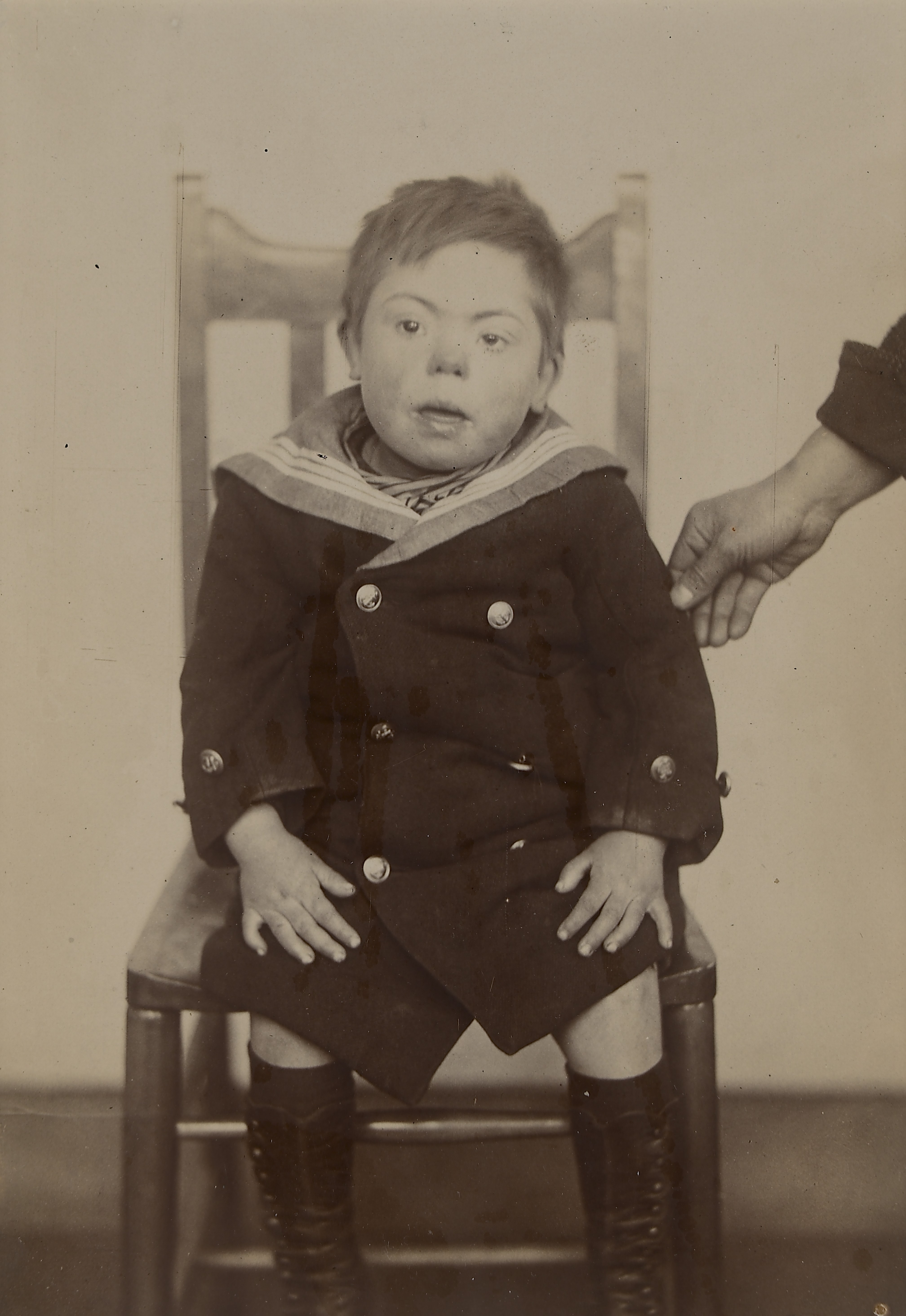 Black and white photograph of a boy with Down syndrome. Front view, seated. Medical Photographic Library